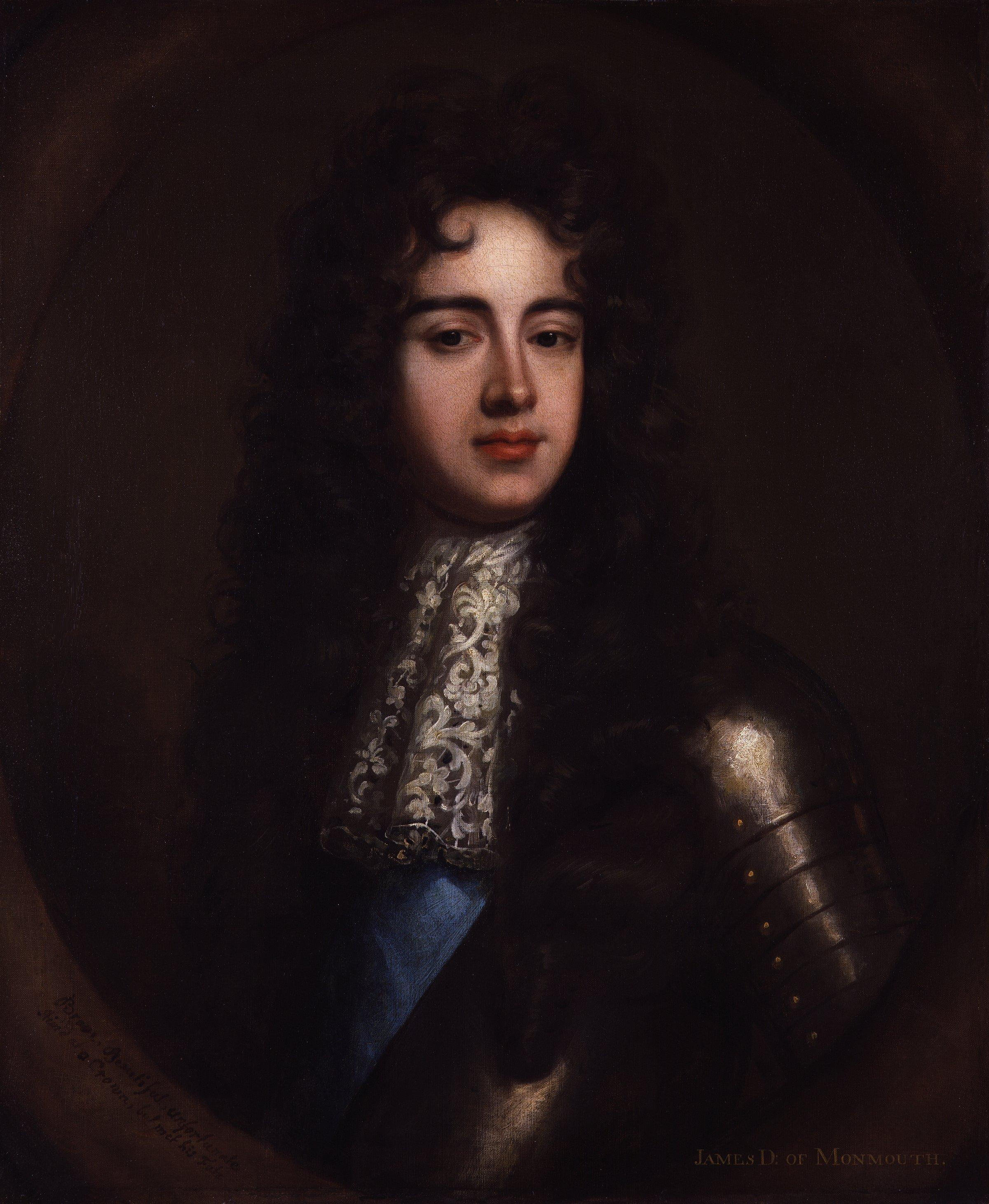 All images in this batch have been confirmed as author died before 1939 according to the official death date listed by the NPG.